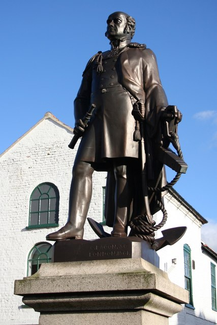 Statue of Sir John Franklin in Spilsby, Lincolnshire.